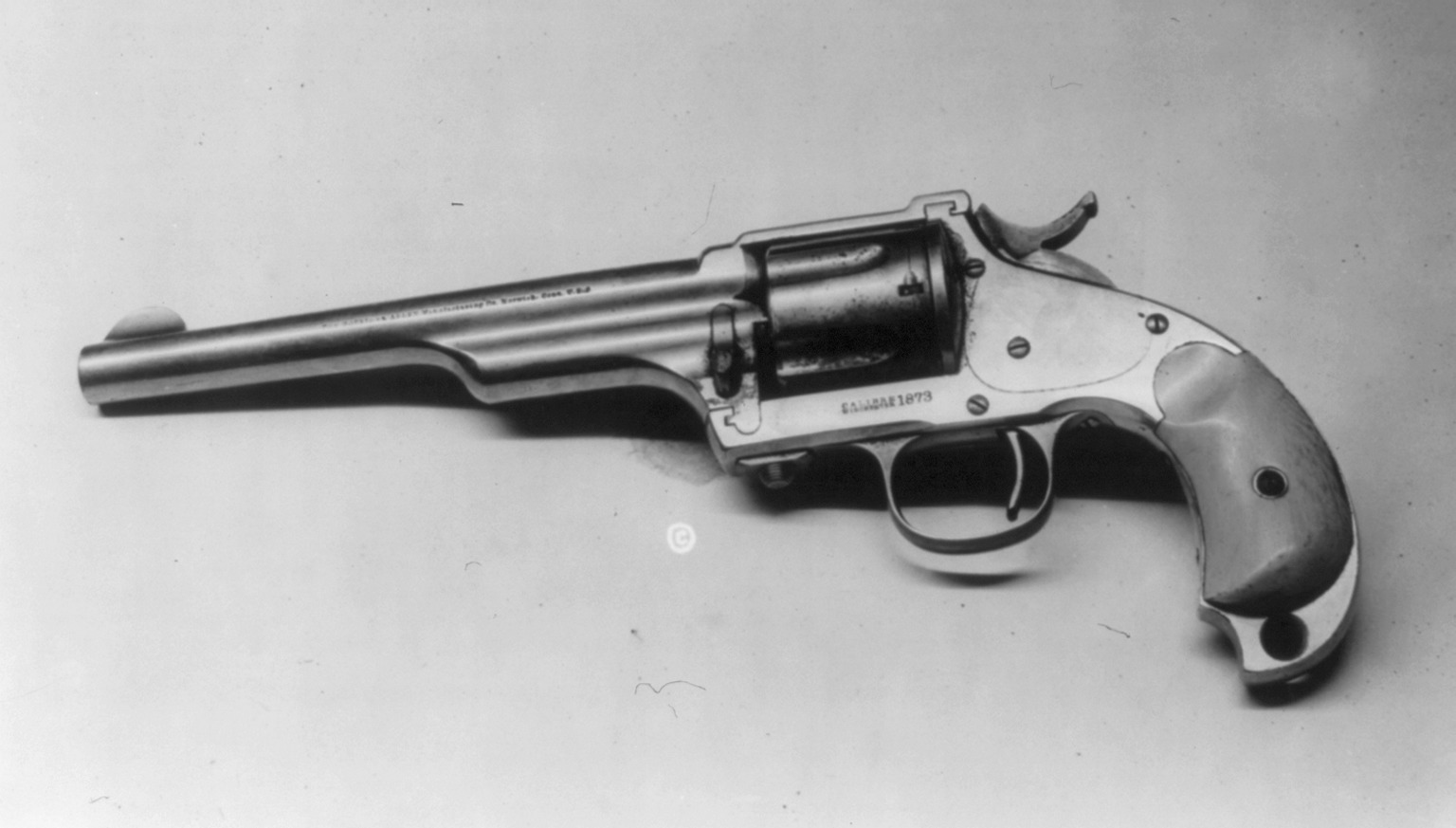 Title: [Jesse James; his .44 Merwin & Hulbert revolver, made by Hopkins & Allen, 1873 model] * Date Created/Published: c1921. * Medium: 1 photographic print. * Reproduction Number: LC-USZ62-50008 (b&w film copy neg.) * Rights Advisory: No known restrictions on publication. * Call Number: BIOG FILE - James, Jesse [item] [P&P] * Repository: Library of Congress Prints and Photographs Division Washington, D.C. 20540 USA * Notes: o Photo copyright 1921 by Mesco Pictures Corp. o This record contains unverified, old data from caption card. * Subjects: o James, Jesse,--1847-1882--Associated objects. * Collections: o Miscellaneous Items in High Demand * Bookmark This Record